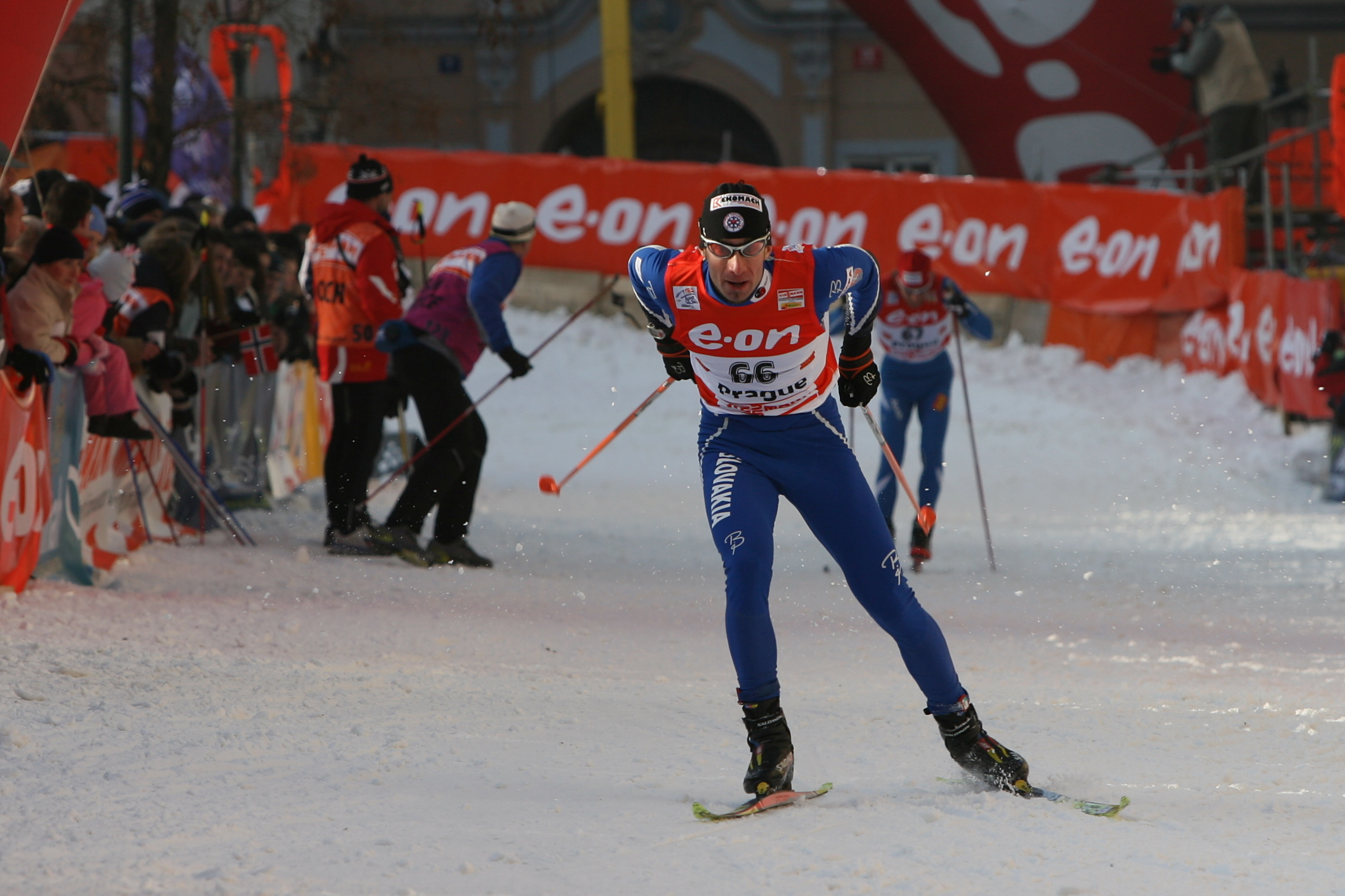 Michal Malák in the qualification of Tour de Ski in Prague.